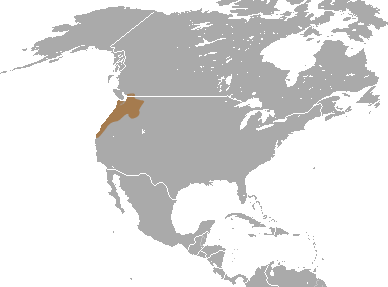 Coast Mole (Scapanus orarius) range